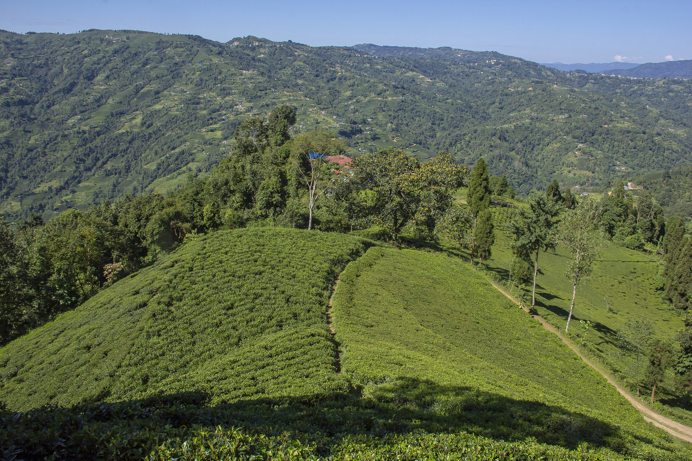 Tea Garden in Ilam, Nepal.